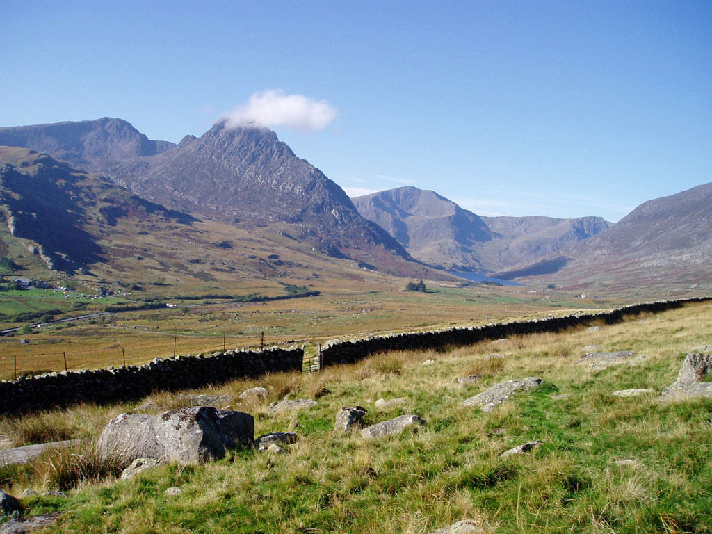 The Glyderau in Snowdonia, North Wales, from the slopes of Pen yr Helgi Du. From left to right: Glyder Fach, Tryfan, Y Garn, Foel Goch. Taken by Blisco on 14 October 2006.